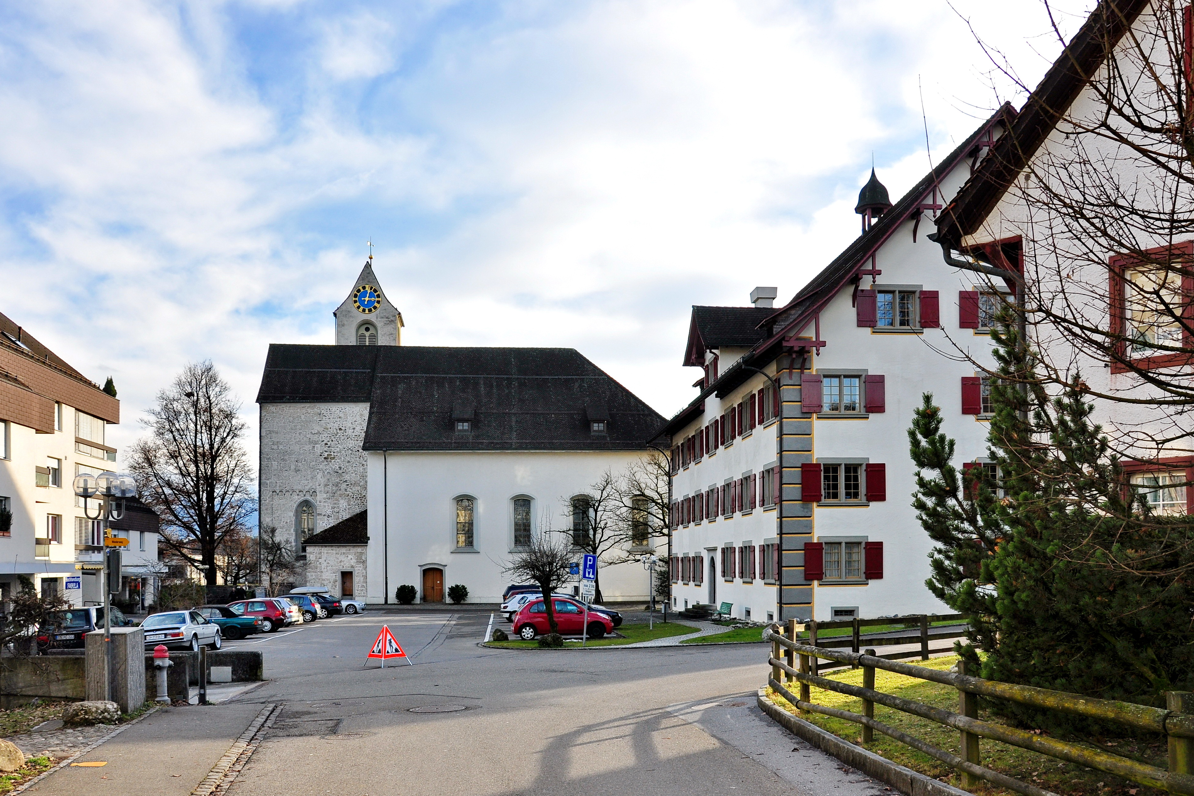 Klosterhof square respectively former Premonstratensian Abbey St. Mary in Rüti (Switzerland), as of today Reformed church, Amthaus to the right.